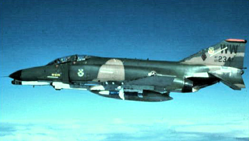 562d Tactical Fighter Training Squadron McDonnell Douglas F-4E-43-MC Phantom 69-7234, after modification to F-4G "Wild Weasel" electronic warfare configuration. 7234 (c/n 3902) loaned to Australia (1970-73)as A69-7234. Damaged in landing accident 10/19/1970 at Amberley QLD. Repaired and reflown 9/71. Returned to USAF 10/25/1972 and modified as F-4G. To AMARC as FP761 9/20/1991. Converted to QF-4G AF212 Aug 31, 1999.